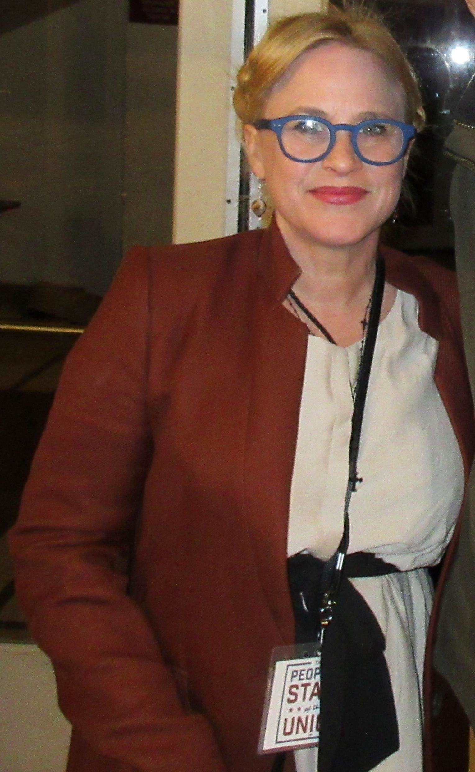 Star of Ed Wood, True Romance, Holes, Boyhood, Medium, and Boardwalk Empire. NYC Jan '18.